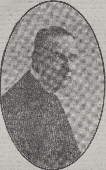 Mayor of Assen